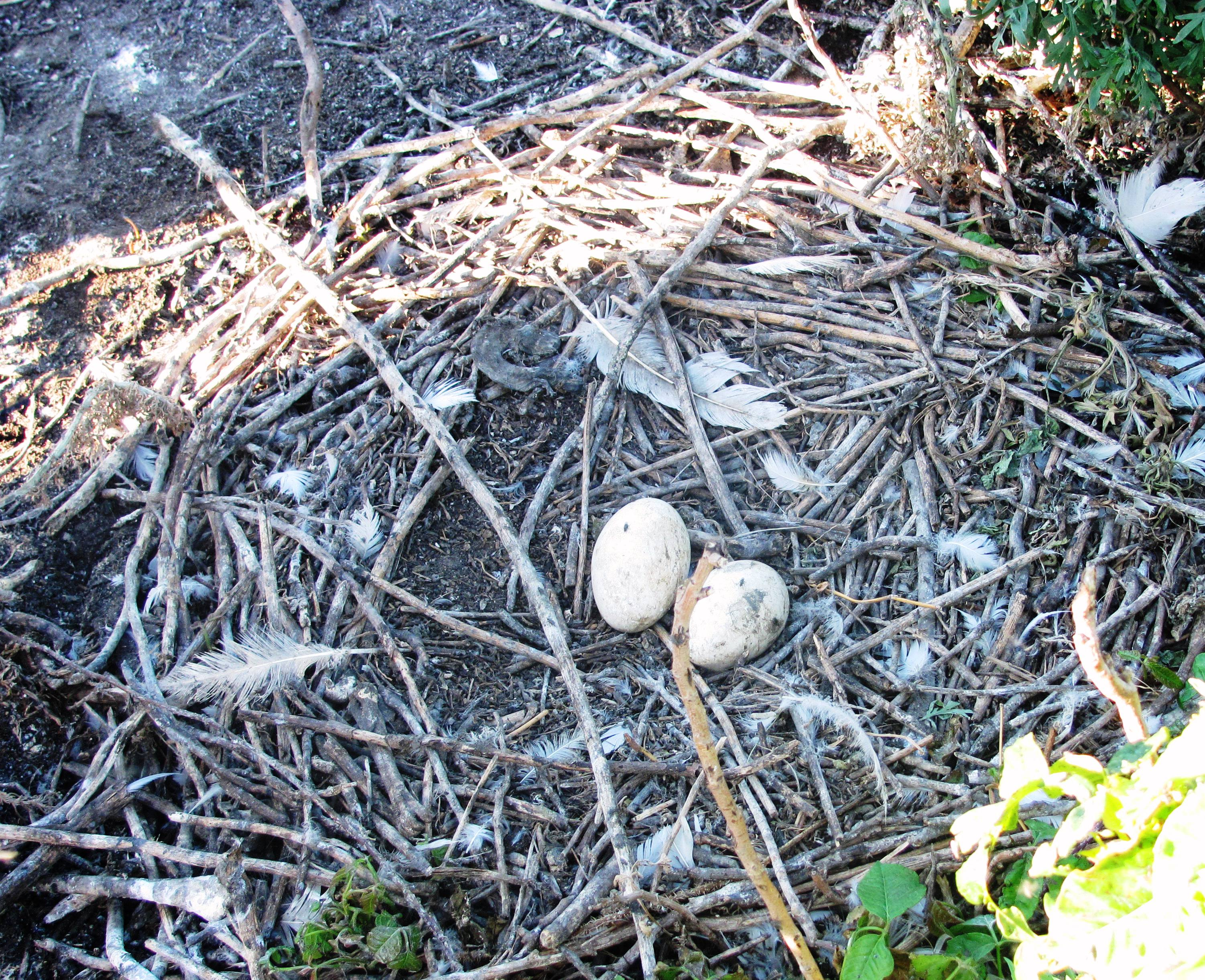 Shown here is an American White Pelican nest. Pelicans usually lay 2 eggs. A unique characteristic about American White Pelicans is that they build their nests on the ground with sticks.